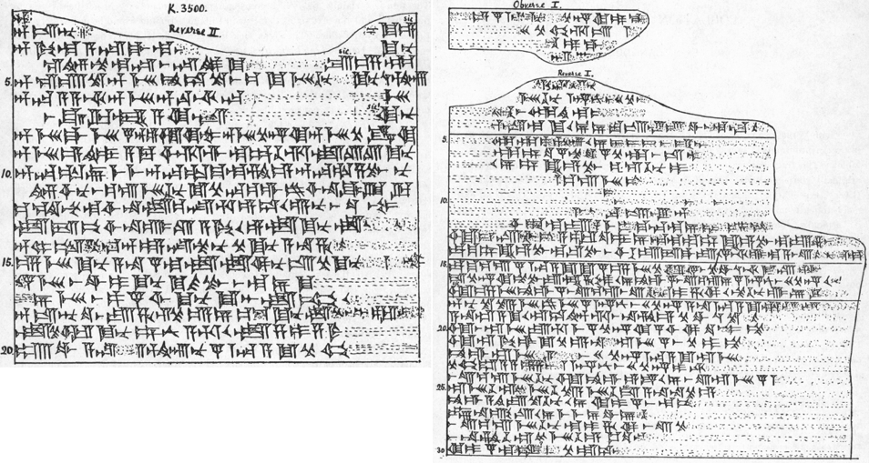 Treaty of Esarhaddon with Baal of Tyre (K 3500 + K 4444 + K 10235), transcription as published by Hugo Winkler in 1898